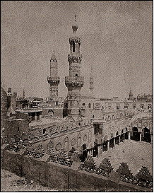 Al-Azhar University (Arabic: الأزهر الشريف; al-Azhar al-Shareef, "the Noble Azhar"), is a premier Egyptian institution of higher learning, world-renowned for its position as a center of Islamic scholarship and education